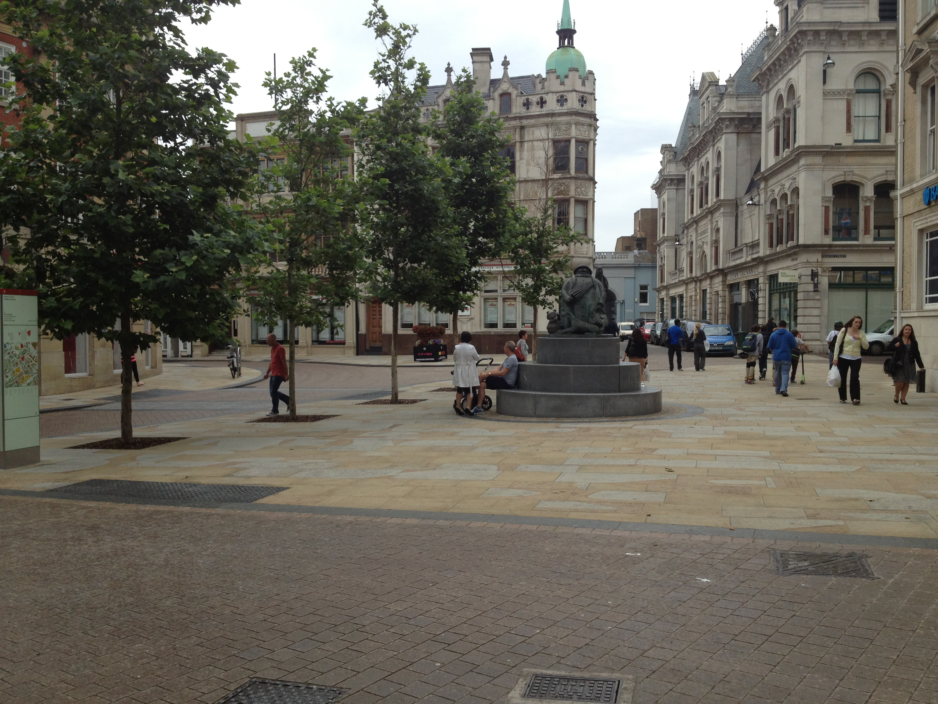 A shared space scheme in Giles Circus, Ipswich, Suffolk featuring a statue of the Giles family, cartoon characters created by Carl Giles who worked nearby.